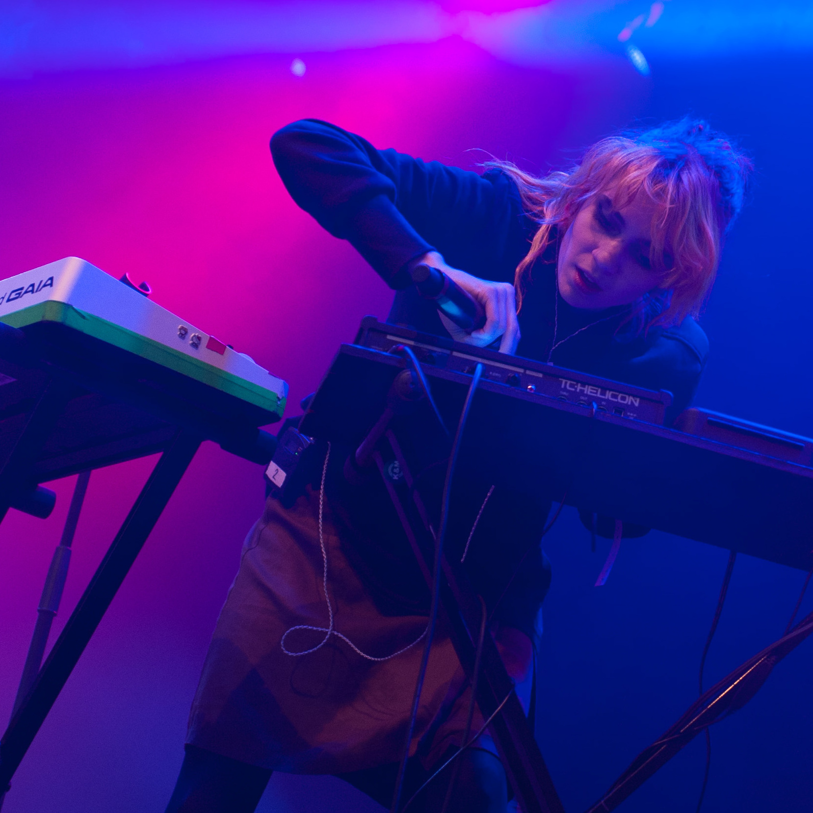 Grimes (Claire Boucher) at Way Out West 2013 in Gothenburg, Sweden